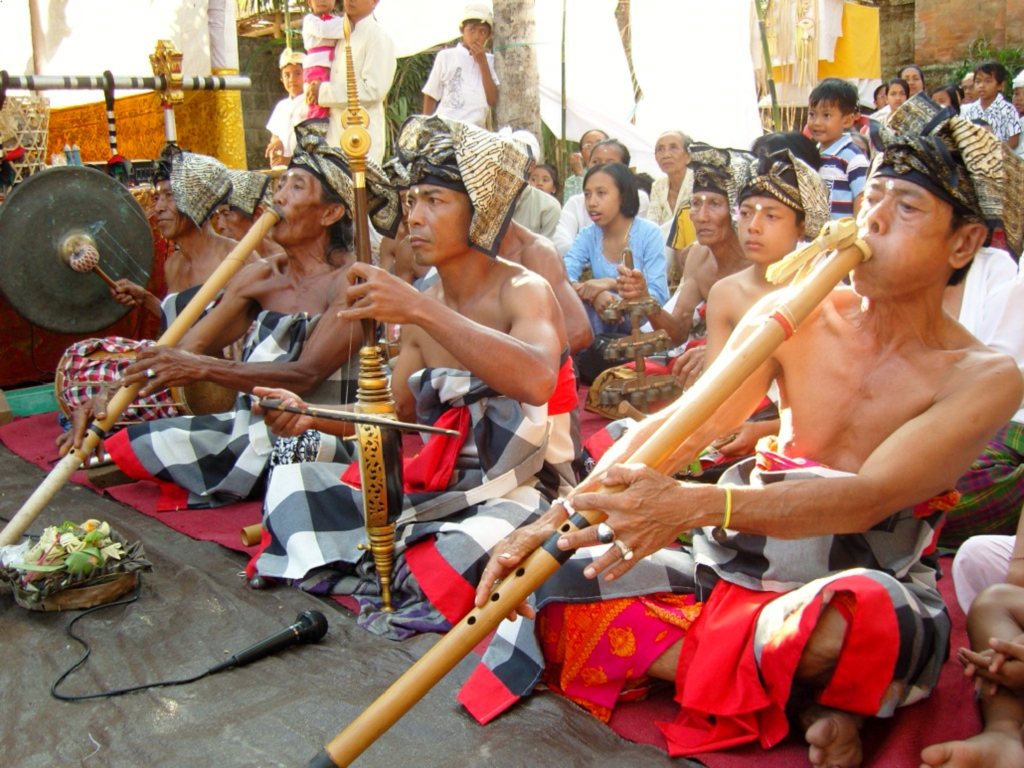 Gamelan Gambuh ensemble, Budakeling, Bali.